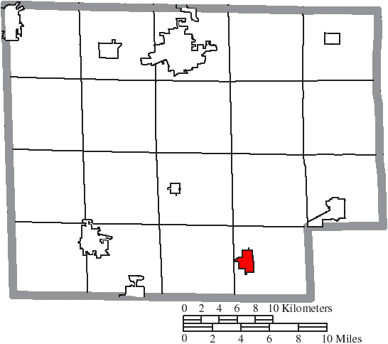 Map of the municipal and township boundaries of Huron County, Ohio, United States, as of the 2000 census, with the location of the village of Greenwich highlighted. Township borders are shown only in unincorporated areas in order to differentiate incorporated and unincorporated areas more clearly.